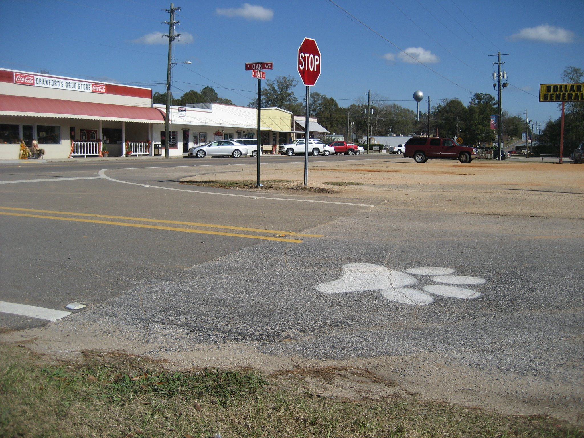 Photo from Main Street, Seminary, Mississippi, taken in 2011